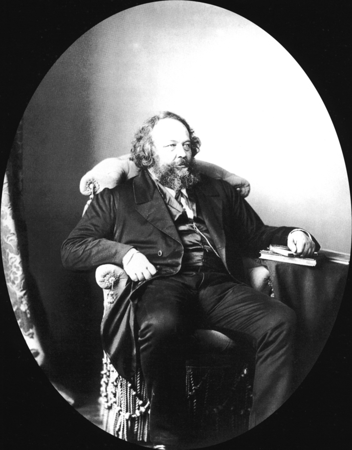 Photograph of Mikhail Bakunin by Sergei Levitzky.